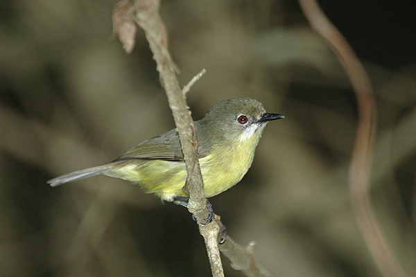 Fairy Gerygone (Gerygone palpebrosa)